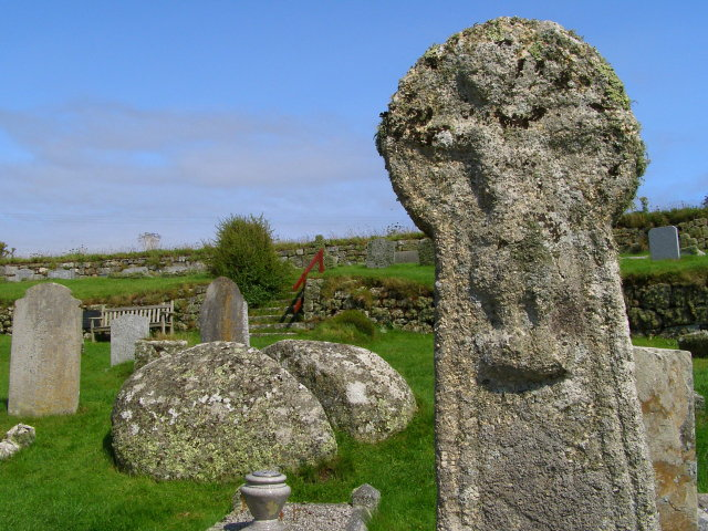 Part of the parish churchyard at St Levan, Cornwall. On the left is the split granite boulder called St Levan's stone; on the right in the foreground is the top of a 7-foot granite cross.The saintly legend of the rock is that St Levan struck the rock with his staff, splitting it in two. The crack is only just wide enough for a human to walk through. St Levan prophesied that when a pack horse with panniers astride could walk through the crack, the World would "be done".